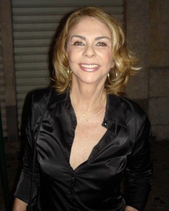 Brazilian actress Maria Claudia.